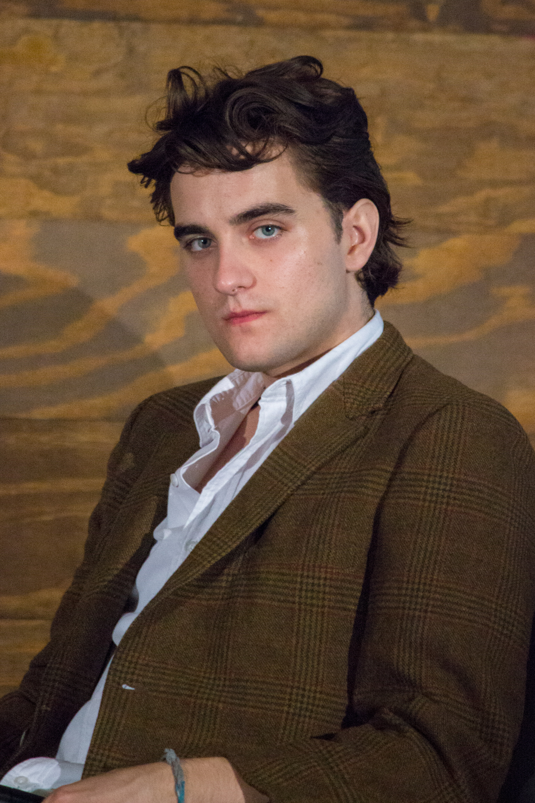 Actor Landon Liboiron at the ATX TV Festival 2014 for the TV show Hemlock Grove